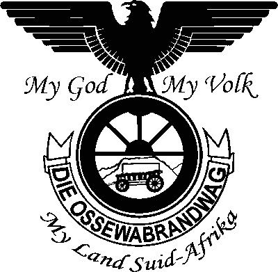 Seal of the Ossewabrandwag